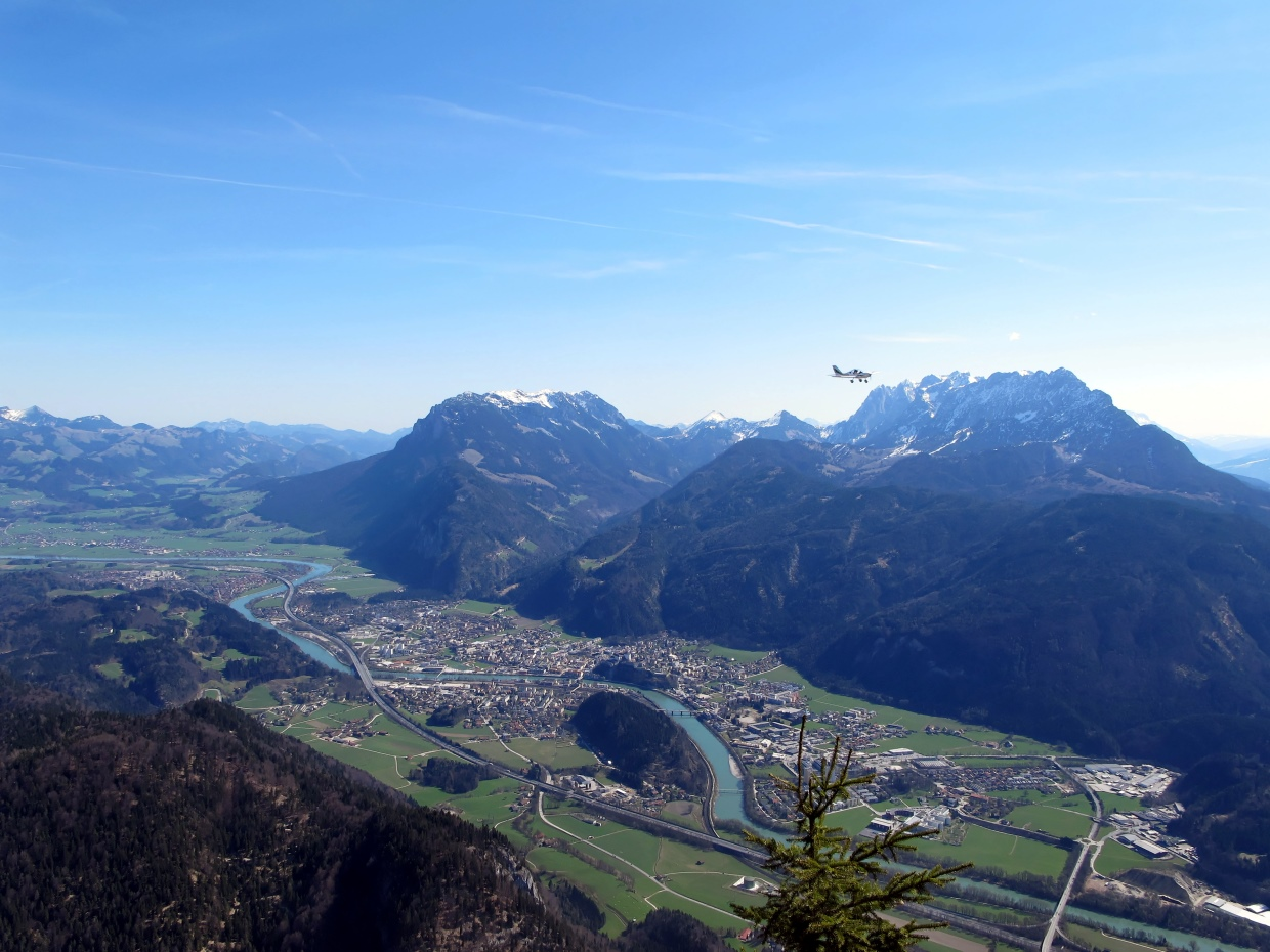 City Kufstein, View from Southwest with Mountains "Kaisergebirge"